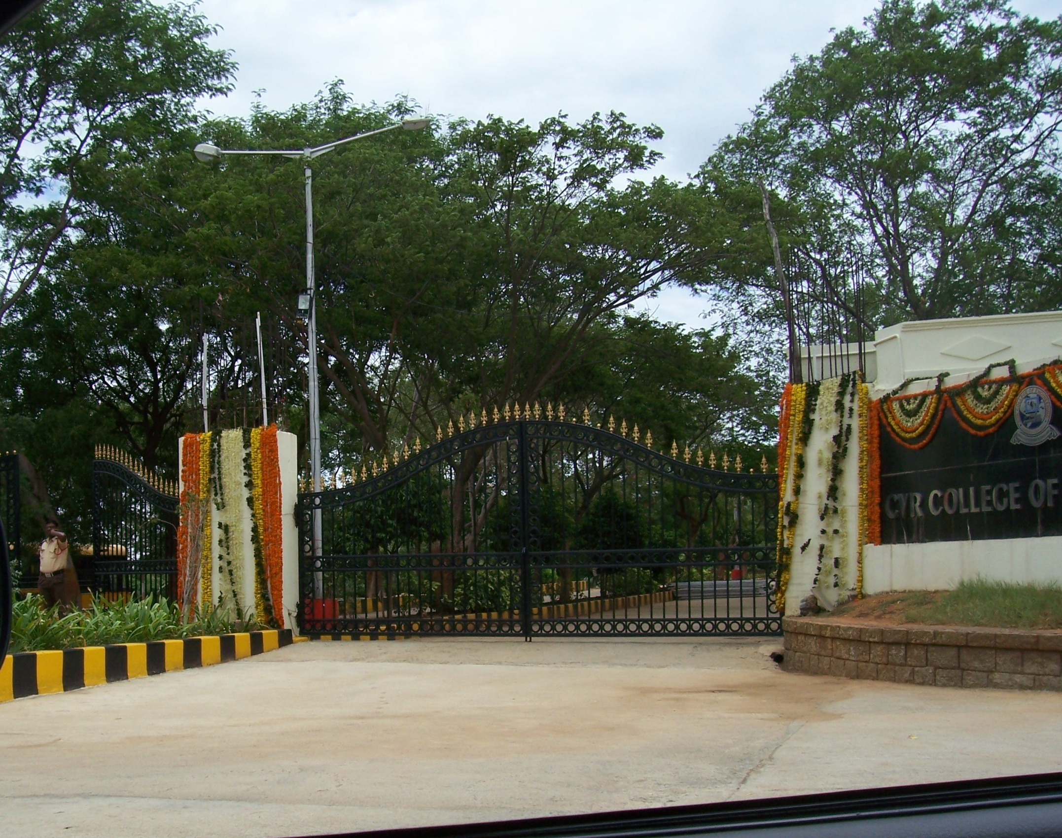 engg. college